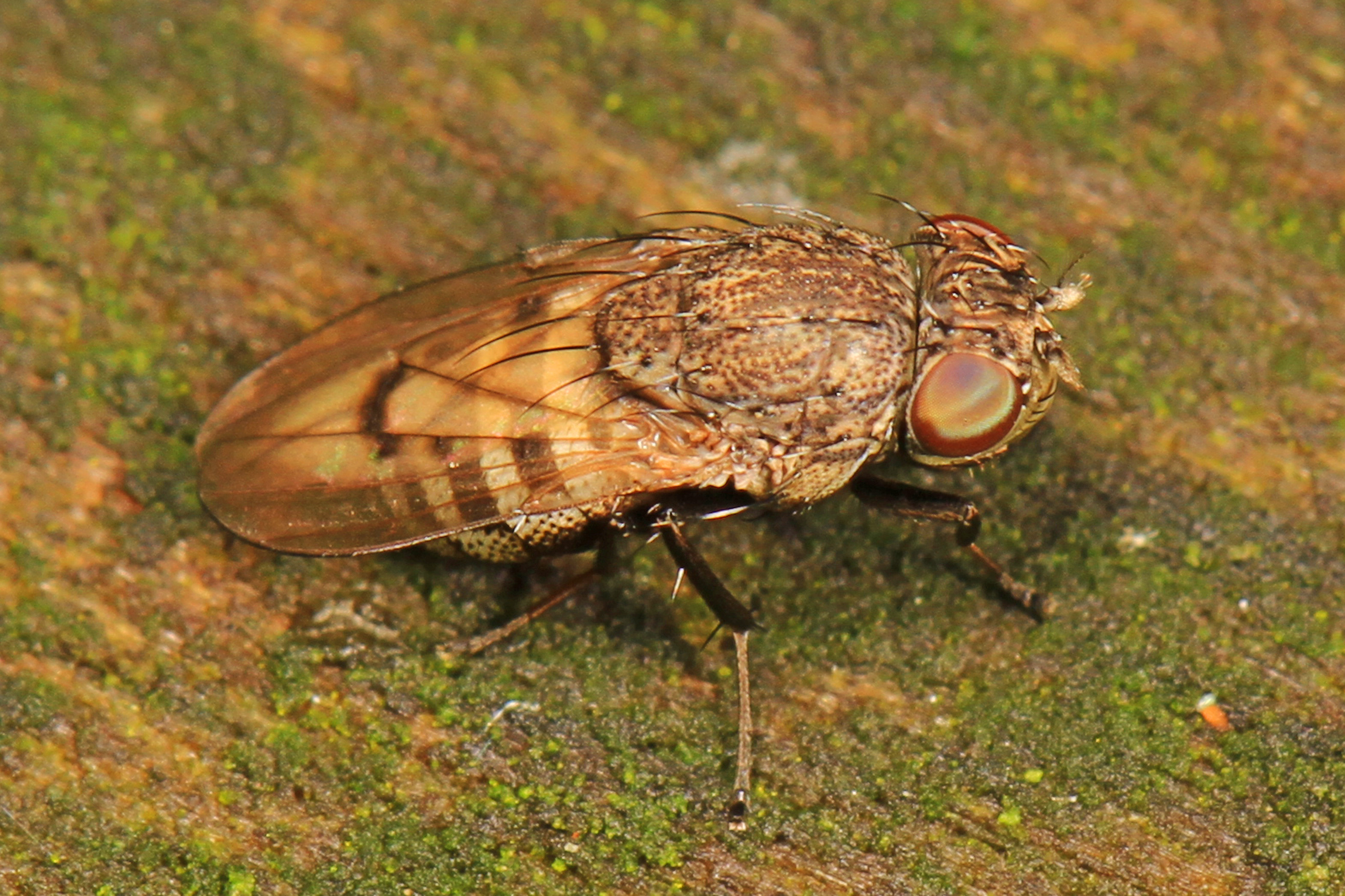 Shore Fly - Paralimna punctipennis, Leesylvania State Park, Woodbridge, Virginia.